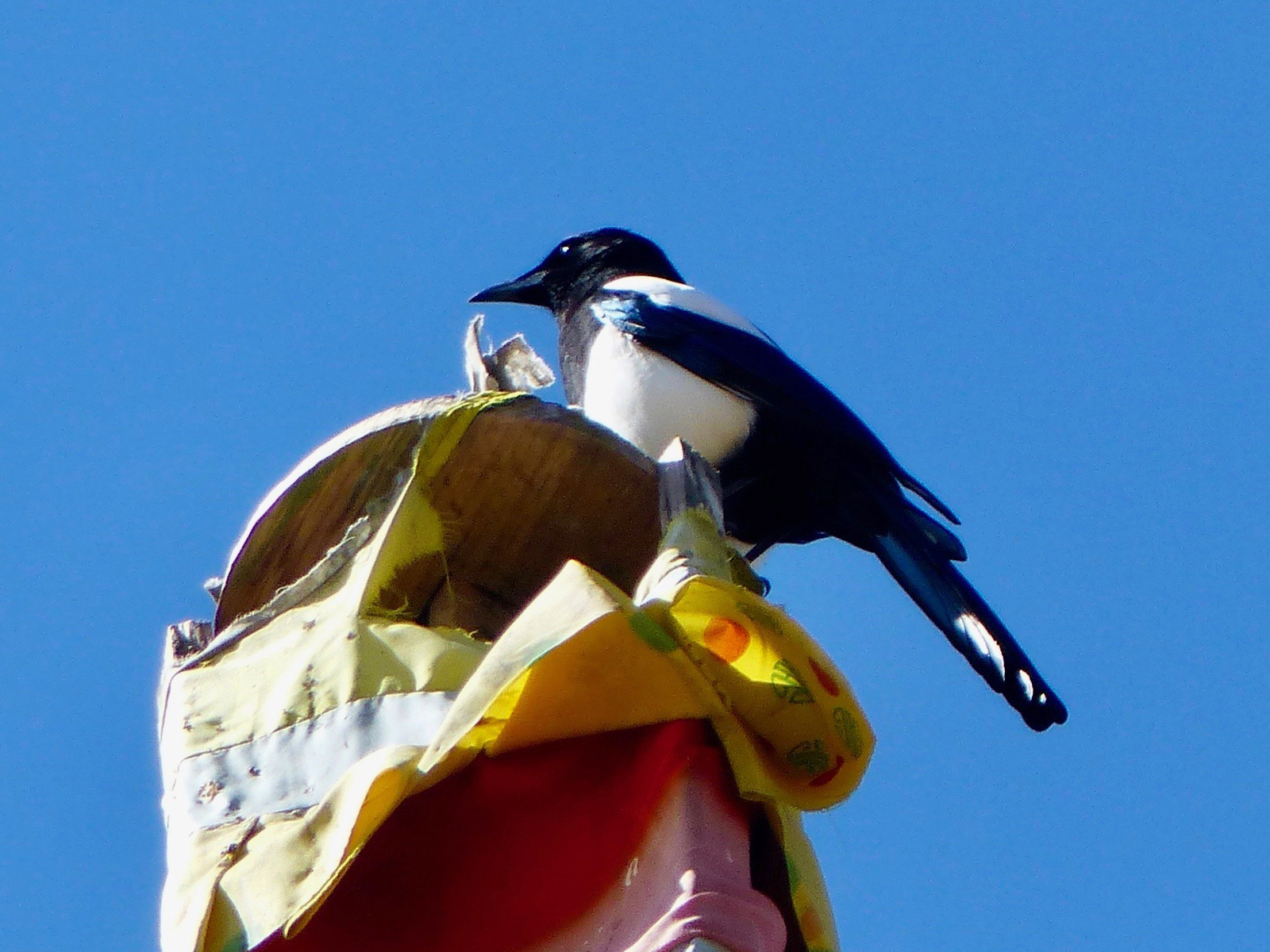 Black-rumped Magpie Pica bottanensis, Bumthang Valley, Bhutan.